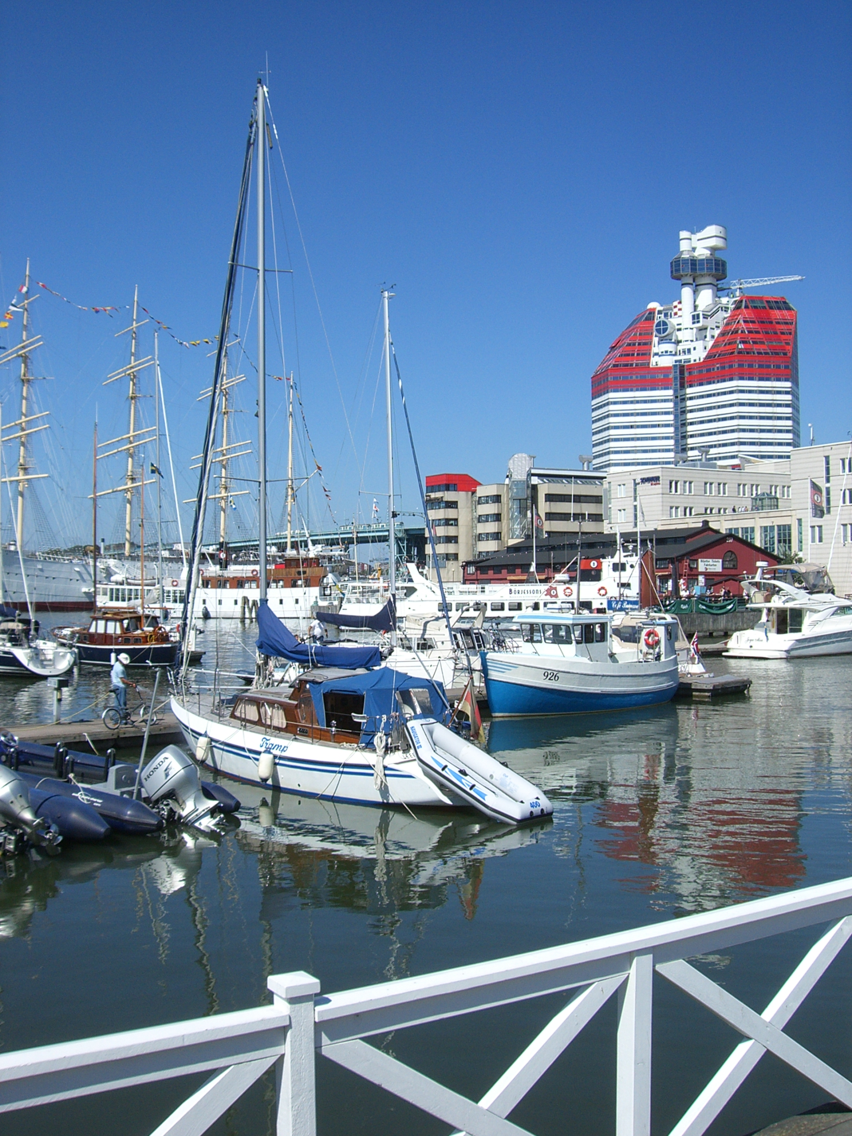 Riverside of Gothenburg in Sweden with yachts.